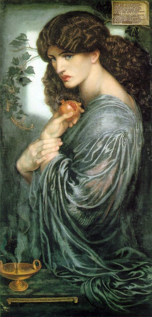 Proserpine/Persephone